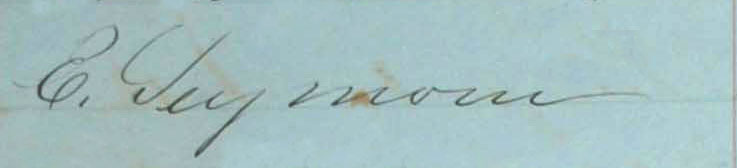 Edward Seymour's signature from the Franklin House Hotel Guest Register, Rutland Vermont. He stayed at the hotel on January 18, 1855. Franklin House Hotel Guest Register, Sept 1854 - April 1855, From the private collection of H. Blair Howell.